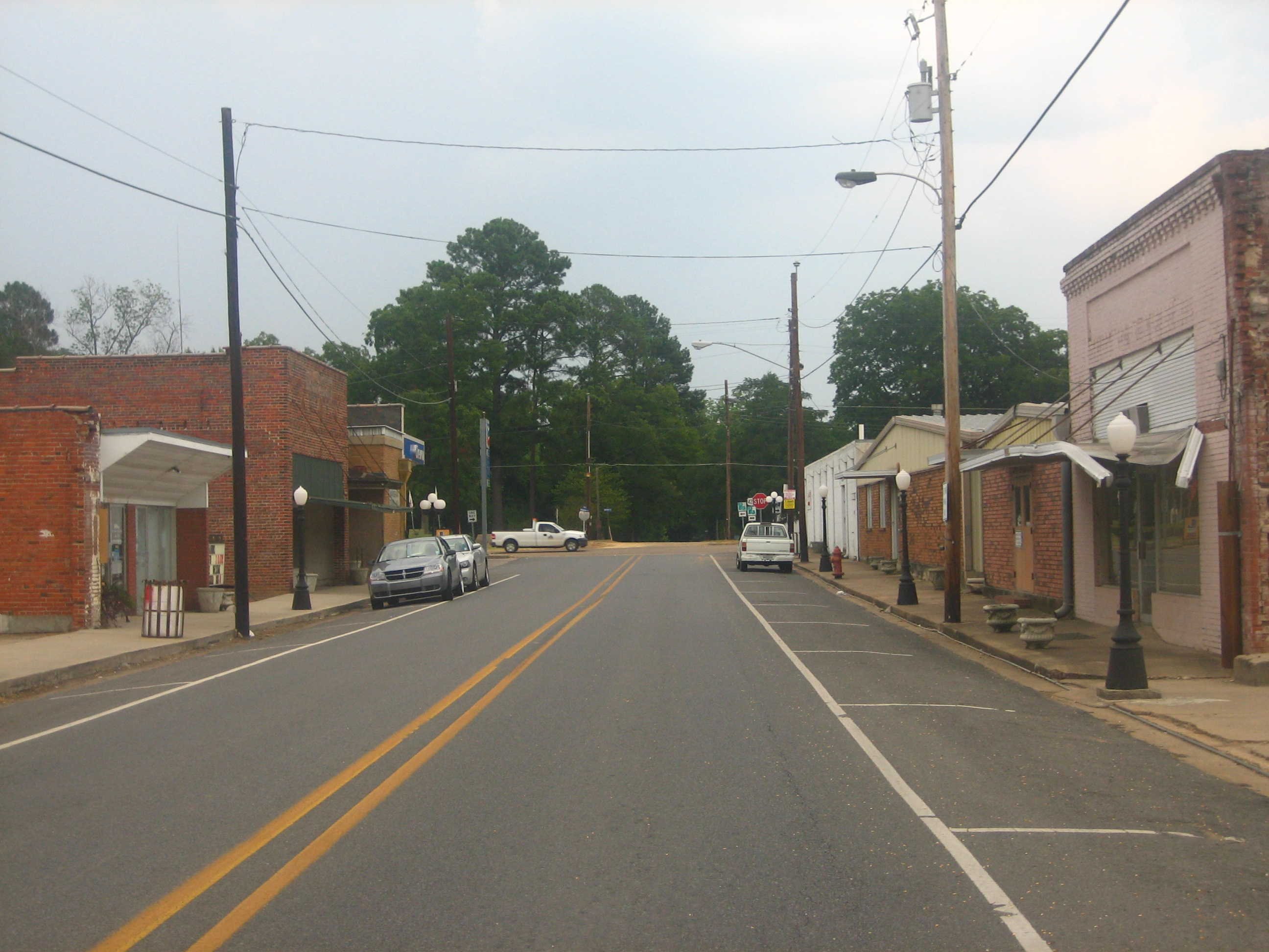 I took photo on Aug. 2, 2008.Billy Hathorn (talk) 03:56, 17 August 2008 (UTC)